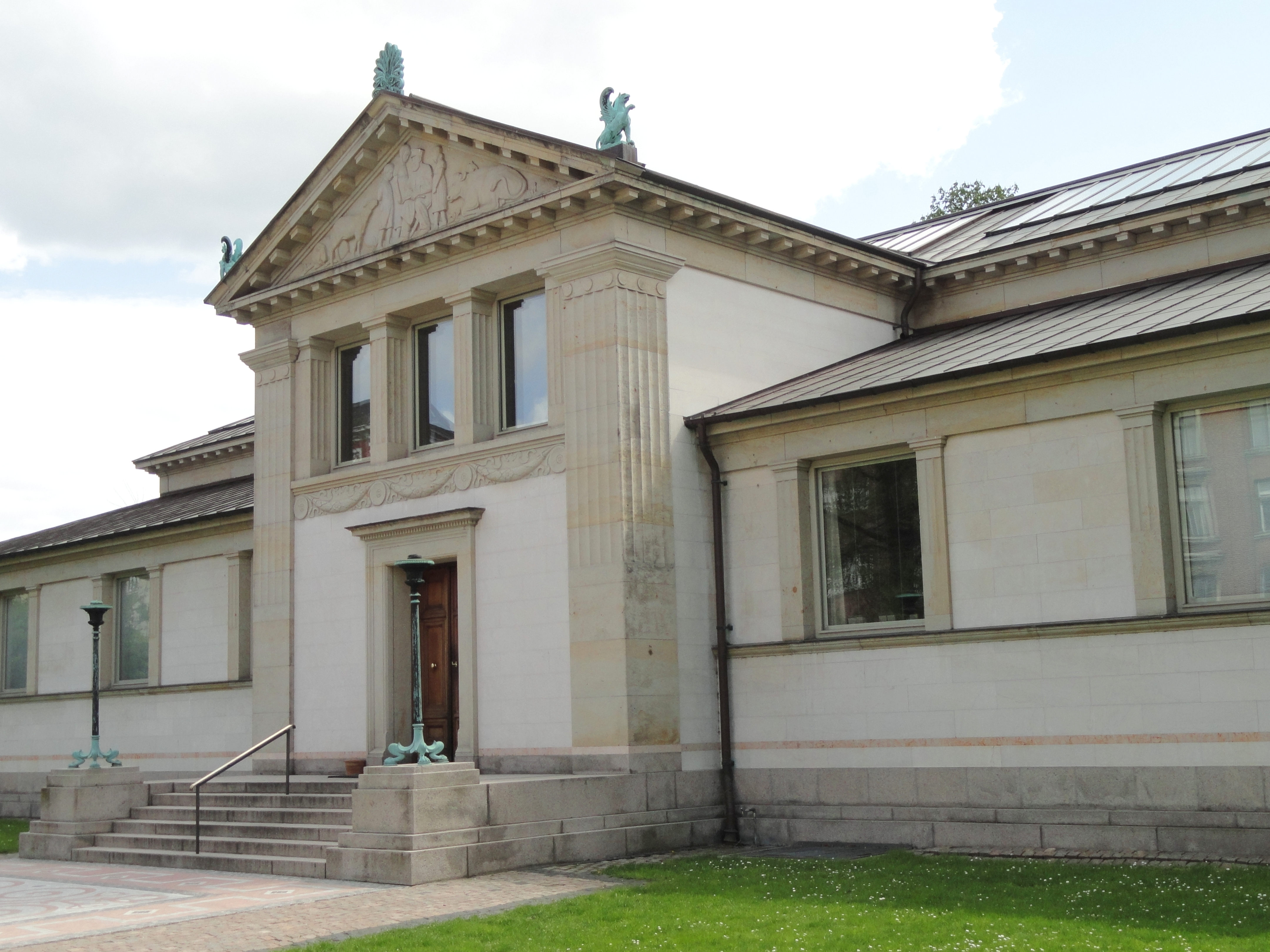 Den Hirschsprungske Samling, Copenhagen, Denmark.